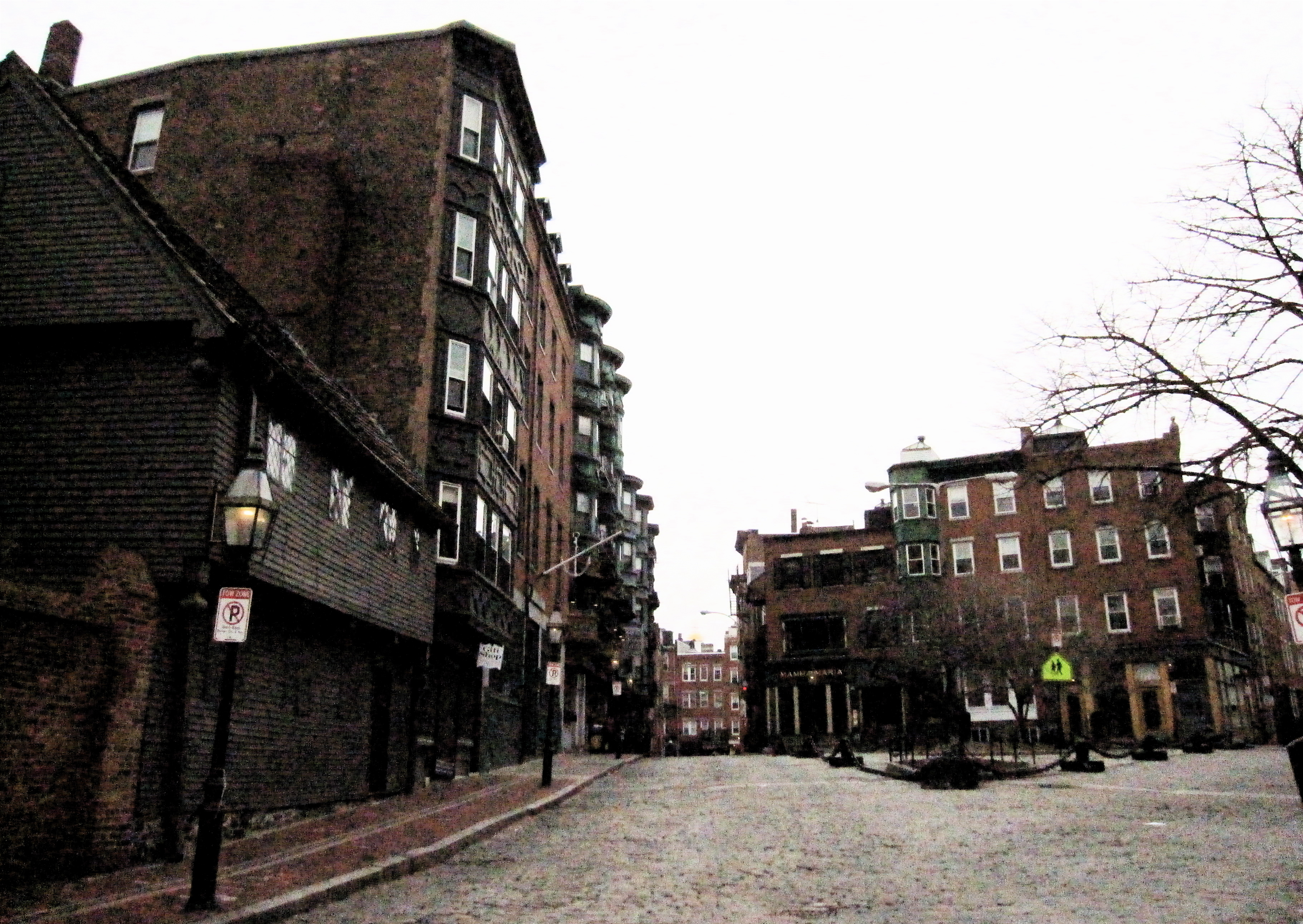 North Square, Boston, Massachusetts